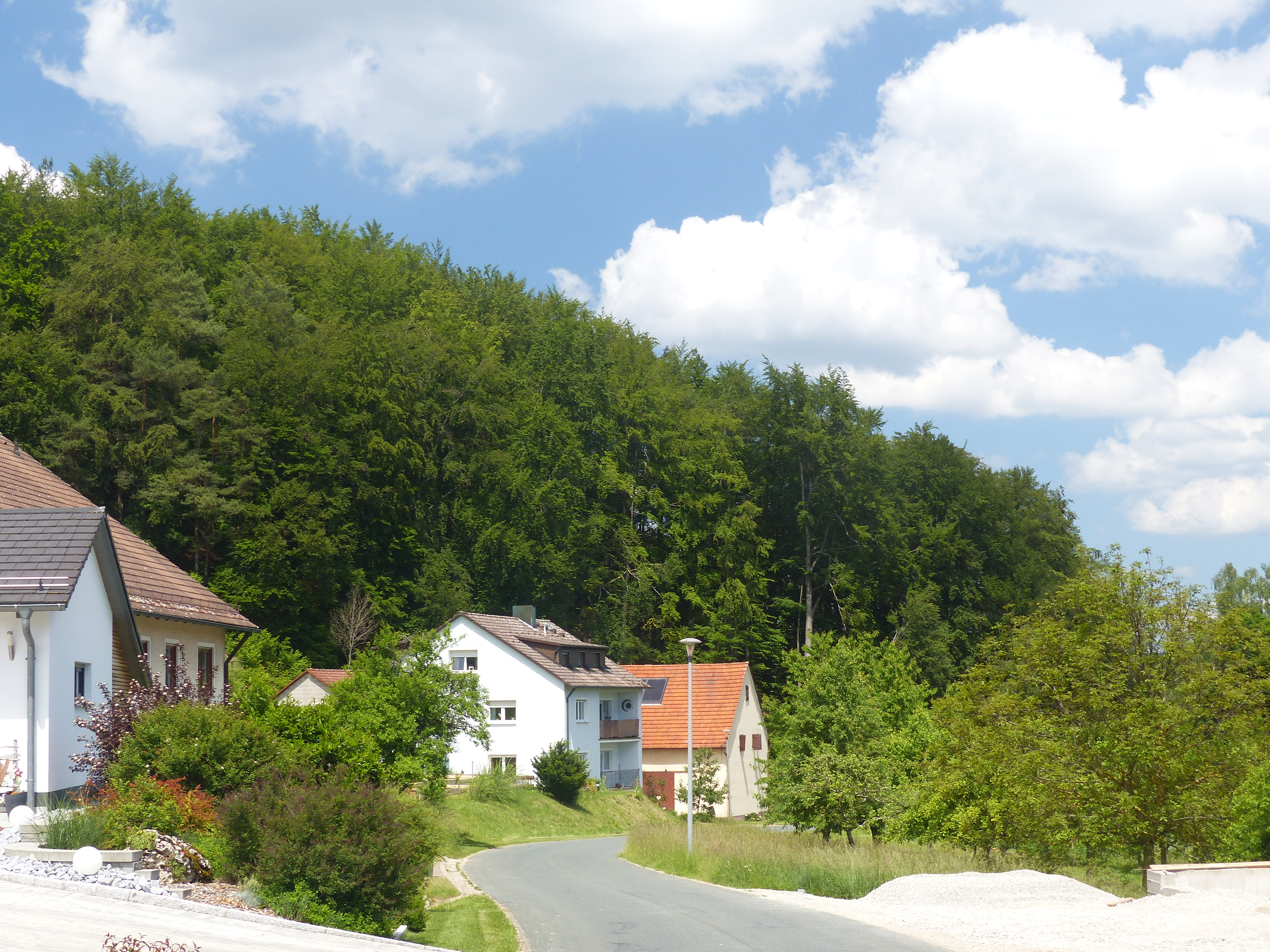 The hamlet Reichenunholden, a district of the municipality of Birgland.